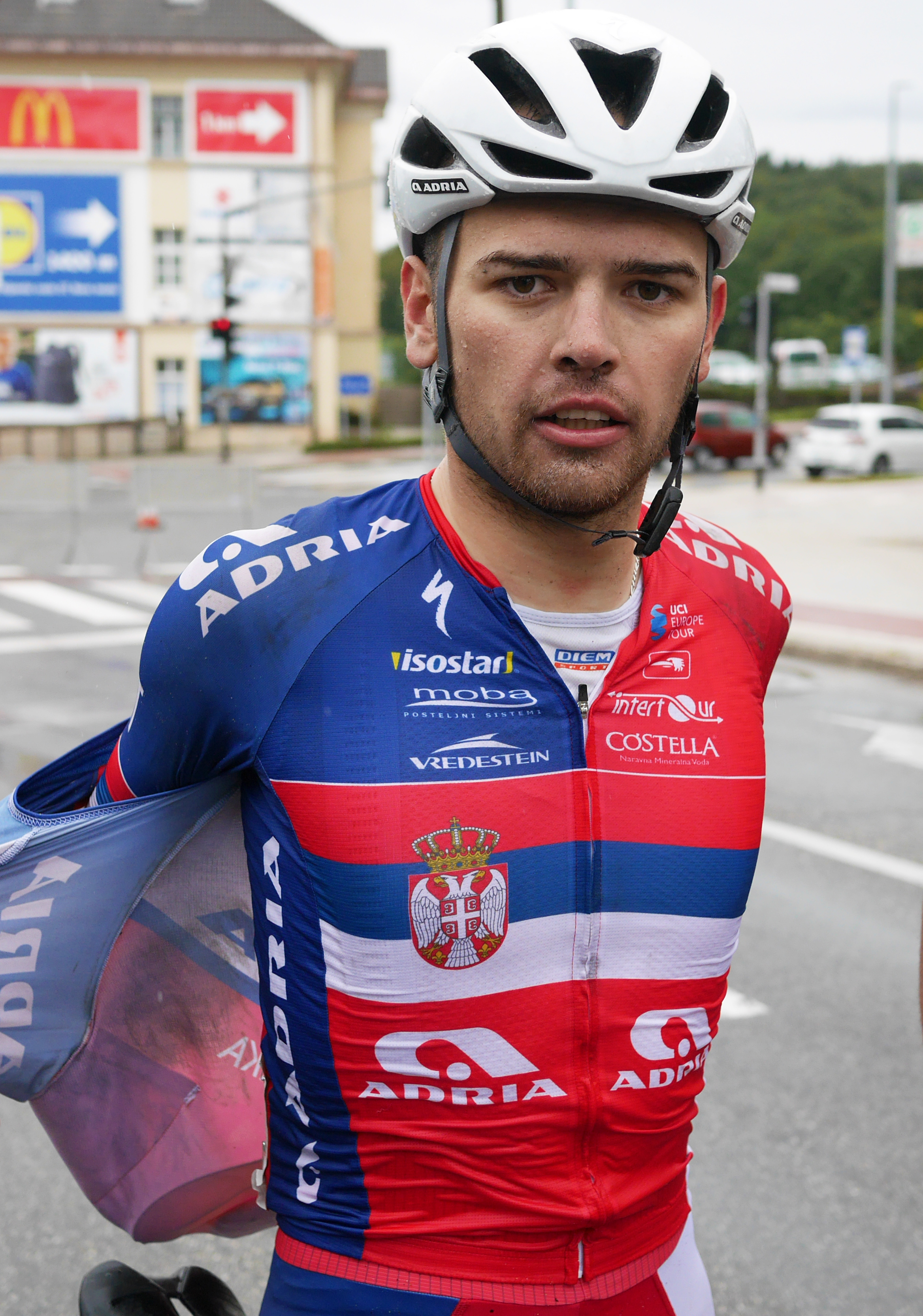 Dušan Rajović (Team Adria Mobil, 2018), after winning race Croatia-Slovenia in Novo mesto, 26/8/2018 Depicted person: Dušan Rajović – cyclist